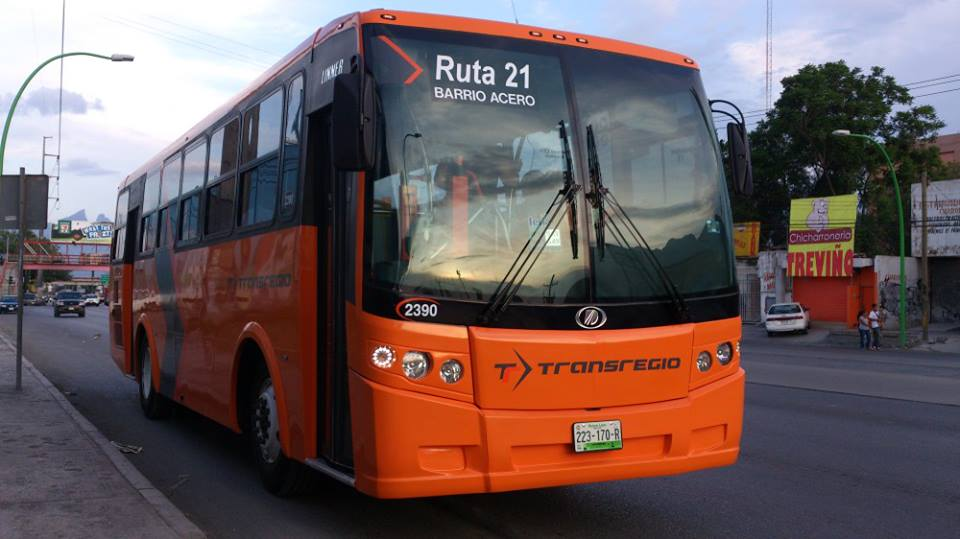 Ruta 21 Barrio Acero de Transregio